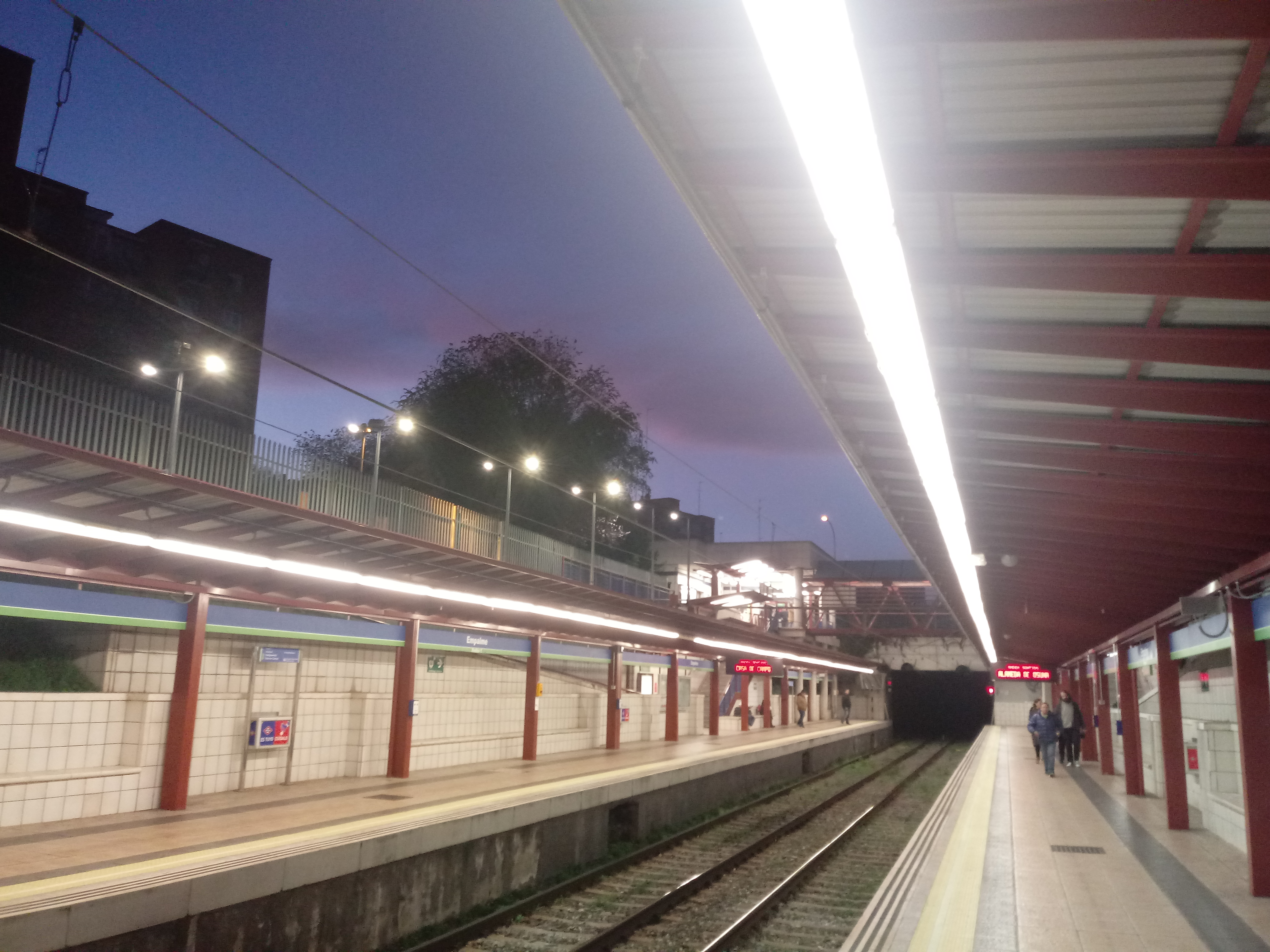 Platforms in Empalme station, in the Madrid Metro